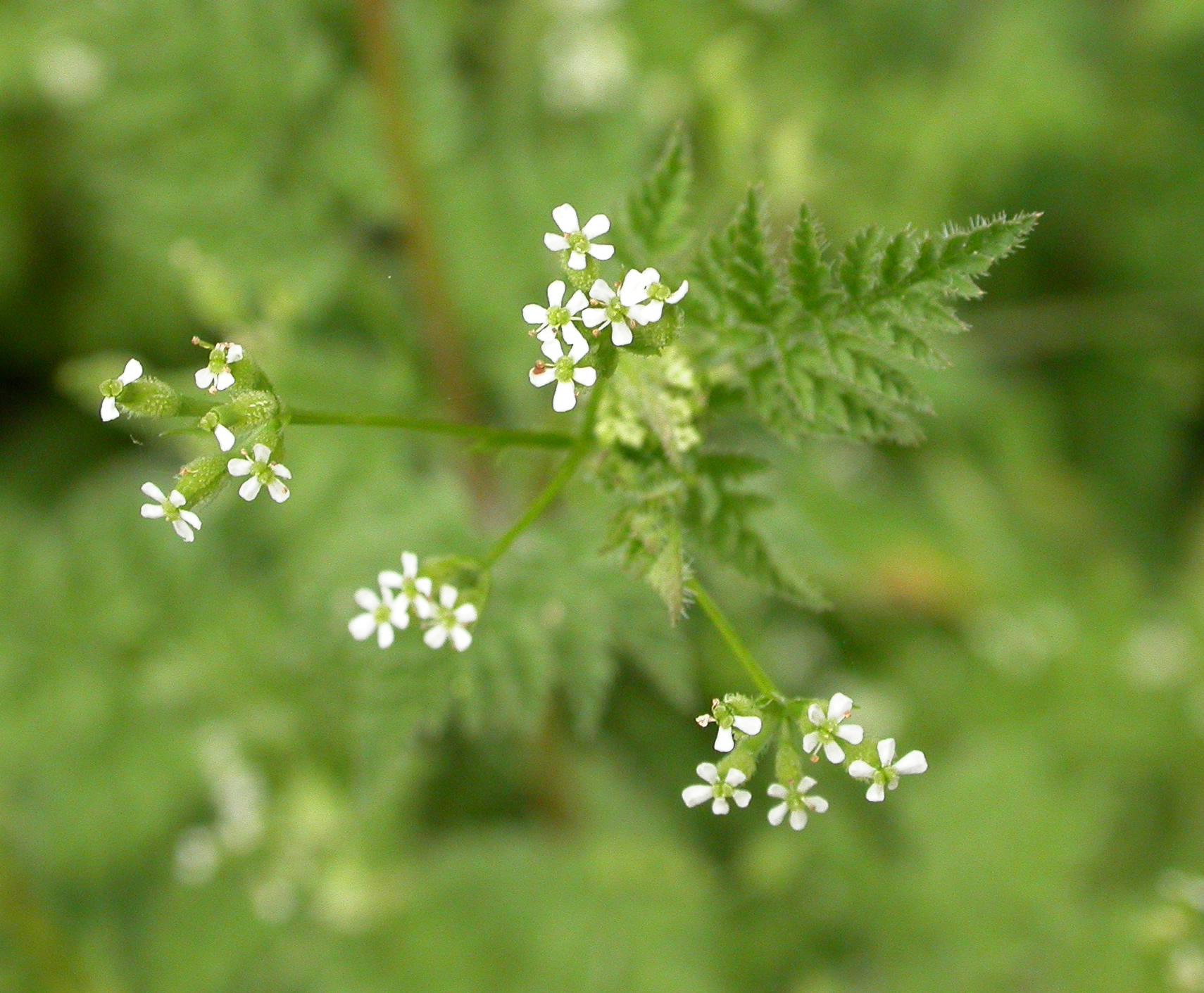 Photographed in Voorhis Ecological Reserve near Pomona, CA, USA. Species is an introduced weed.